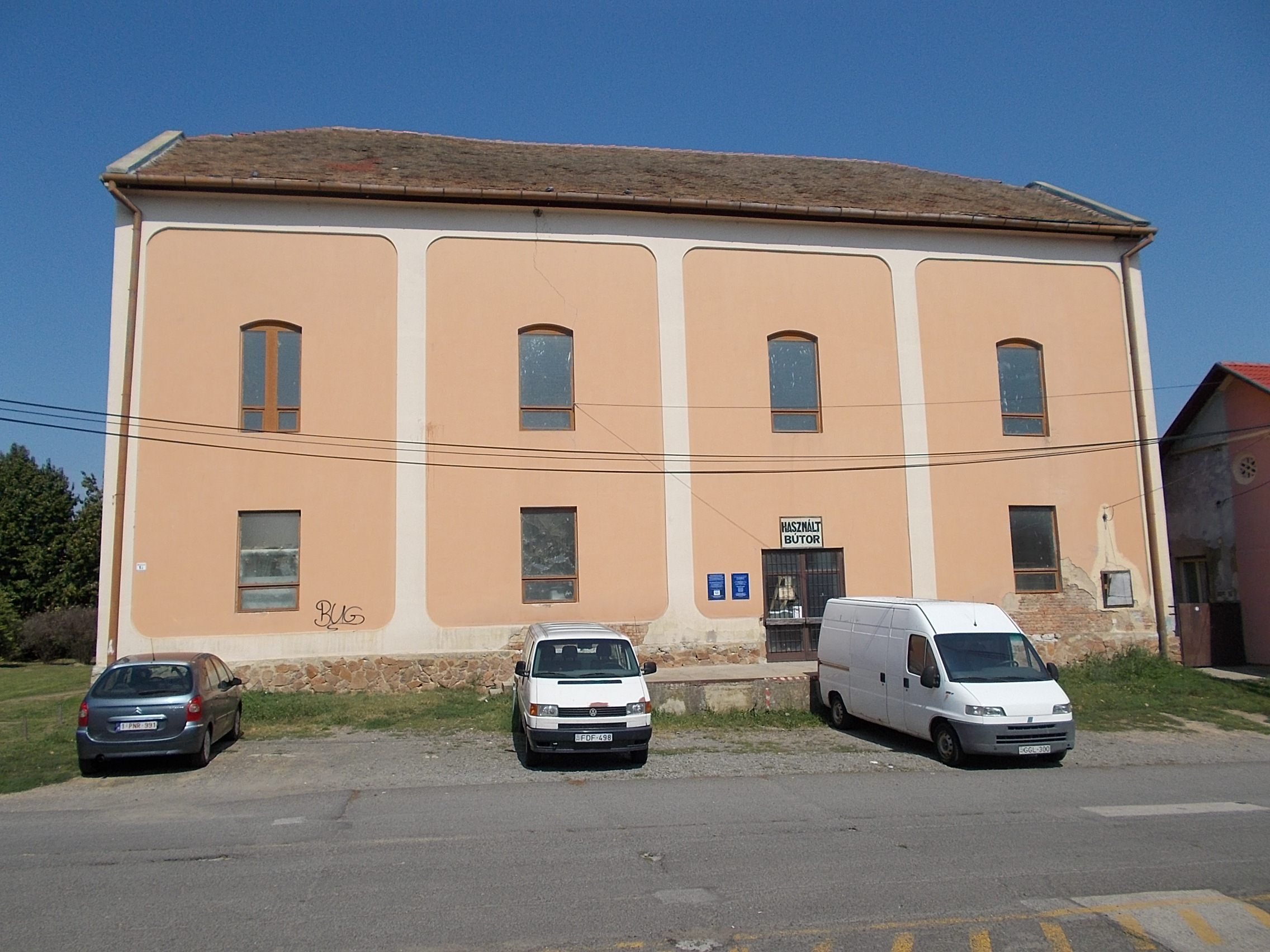 Orthodox synagogue, built in 1924 by Salomon Krausz- Táncsics Street, Rákóczi Street off, Bonyhád, Tolna County, Hungary.